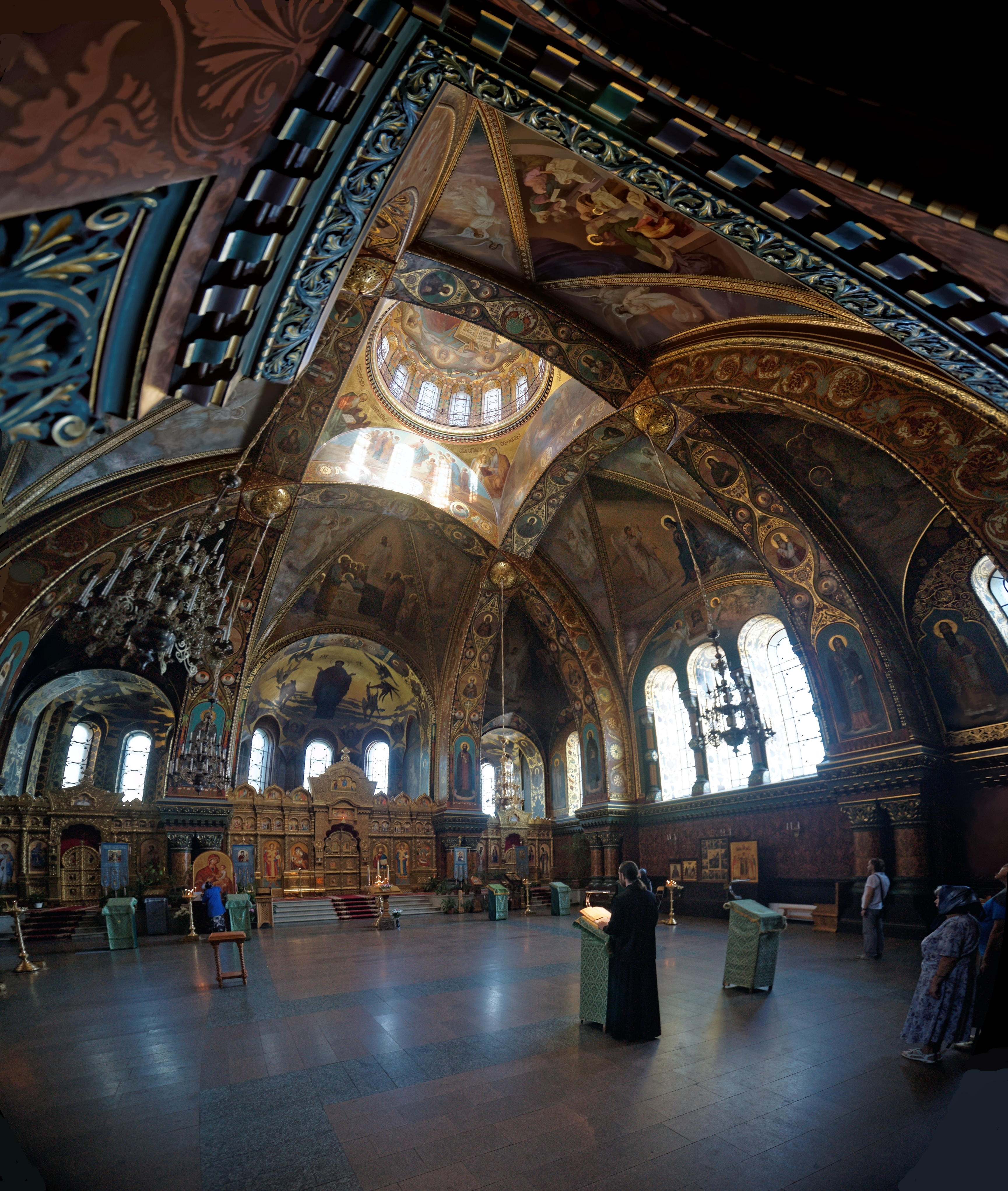 Санкт-Петербург / St Petersburg - Набережная Лейтенанта Шмидта / Naberezhnaya Leytenanta Shmidta - Успенская церковь на Васильевском острове / Assumption Church on Vasilevsky Island 1895-1903 by Vasiliy Antonovich Kosyakov (Василий Антонович Косяков) - Art Nouveau